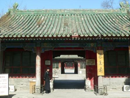 恭王府大门 拍摄 Category:北京 Category:中国建筑 Category:中国文物